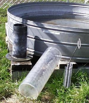 Accessories to the evaporation pan: The stilling well is a 2 1/2 to 3 1/2 inch diameter tube of non-corrosive metal (object on left side of the image). Two small openings in the side of the tube near the base permit water to flow into the stilling well, and also restricts surging action of water at the point of measurement, hence its name. The fixed-point gage is mounted within the well and consists of a pointed rod. The fixed point measuring tube is a 15 inch clear cylinder (object in the lower center of the image) with a cross sectional area equal to one hundredth of the area of the evaporation pan. It is used to measure the amount of water necessary to replace that lost from evaporation. The tube is graduated at 1 inch intervals to permit an accuracy of 0.01 inch. The sixes thermometer is a U shaped mercury maximum-minimum thermometer mounted on a clear piece of plastic with a metal handle (on the right). The thermometer is used to determine the max and min temperature of the evaporation pan water during the observation period. The mercury column moves blue "dumbbells" at each end of the U which provides the max and min temperatures of the water. To reset the sixes thermometer, a magnet is used to move the dumbbells back into contact with the mercury.